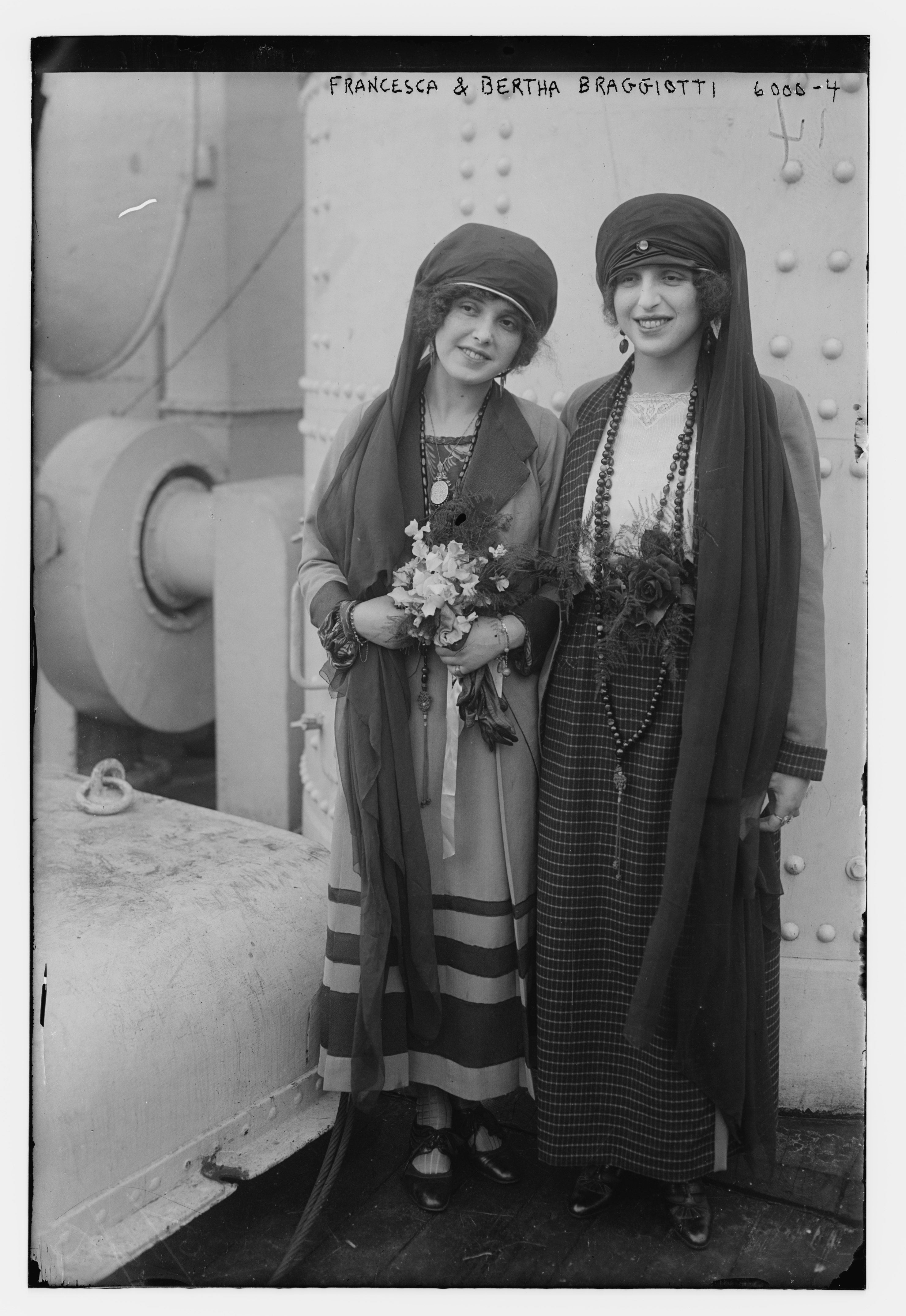 Title: Francesca and Bertha Braggiotti Abstract/medium: 1 negative : glass ; 5 x 7 in. or smaller.